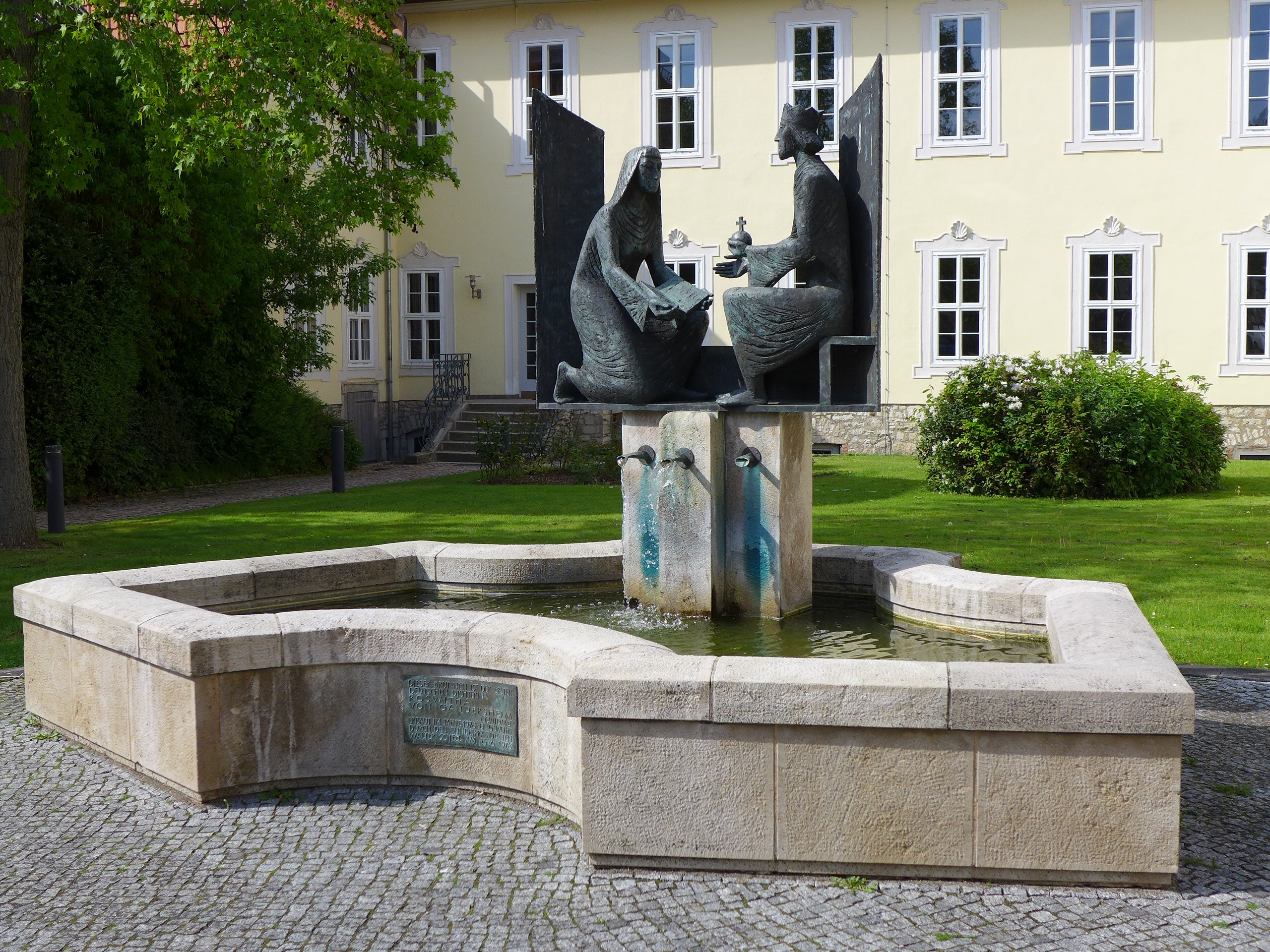 fountain created in 1978